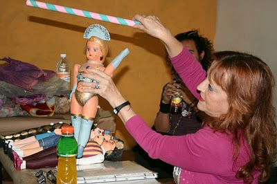 María Eugenia Chellet at a Miss Lupita project workshop at the Centro Cultural Casa Talavera of Mexico City